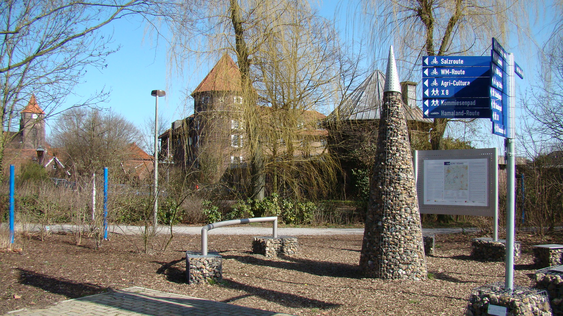 Touristic transfer point at Oeding Germany